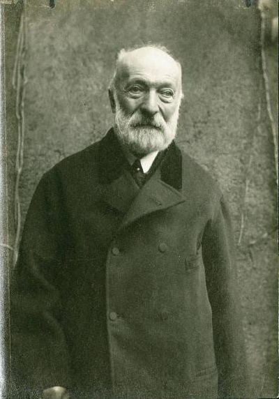 Antonio bazzini (1811-1897) in last years of life in Milan.Italy